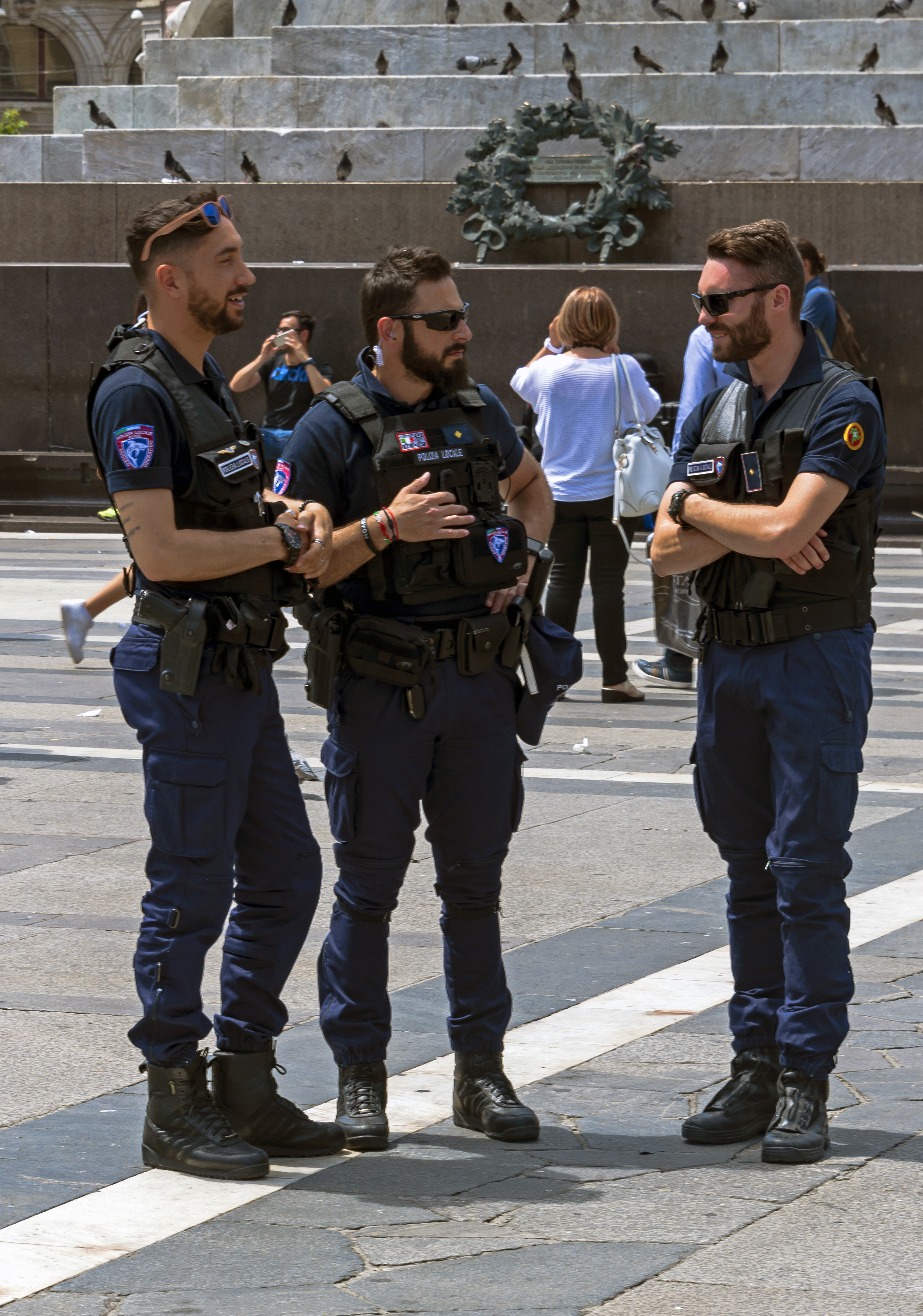 Three officers of the Polizia Locale in Milan kickin' it on a nice June afternoon in the Piazza del Duomo